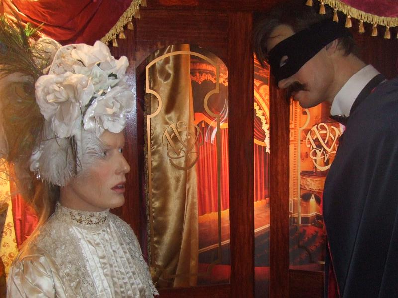 Scandal in Bohemia (Trafalgar Sq., Holmes Museum, Hyde Park)